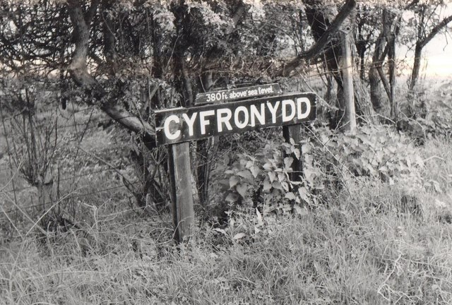 Cyfronydd Station sign Station platform sign on the Welshpool and Llanfair Railway, indicating height (380 feet) above sea level - not sure why ?